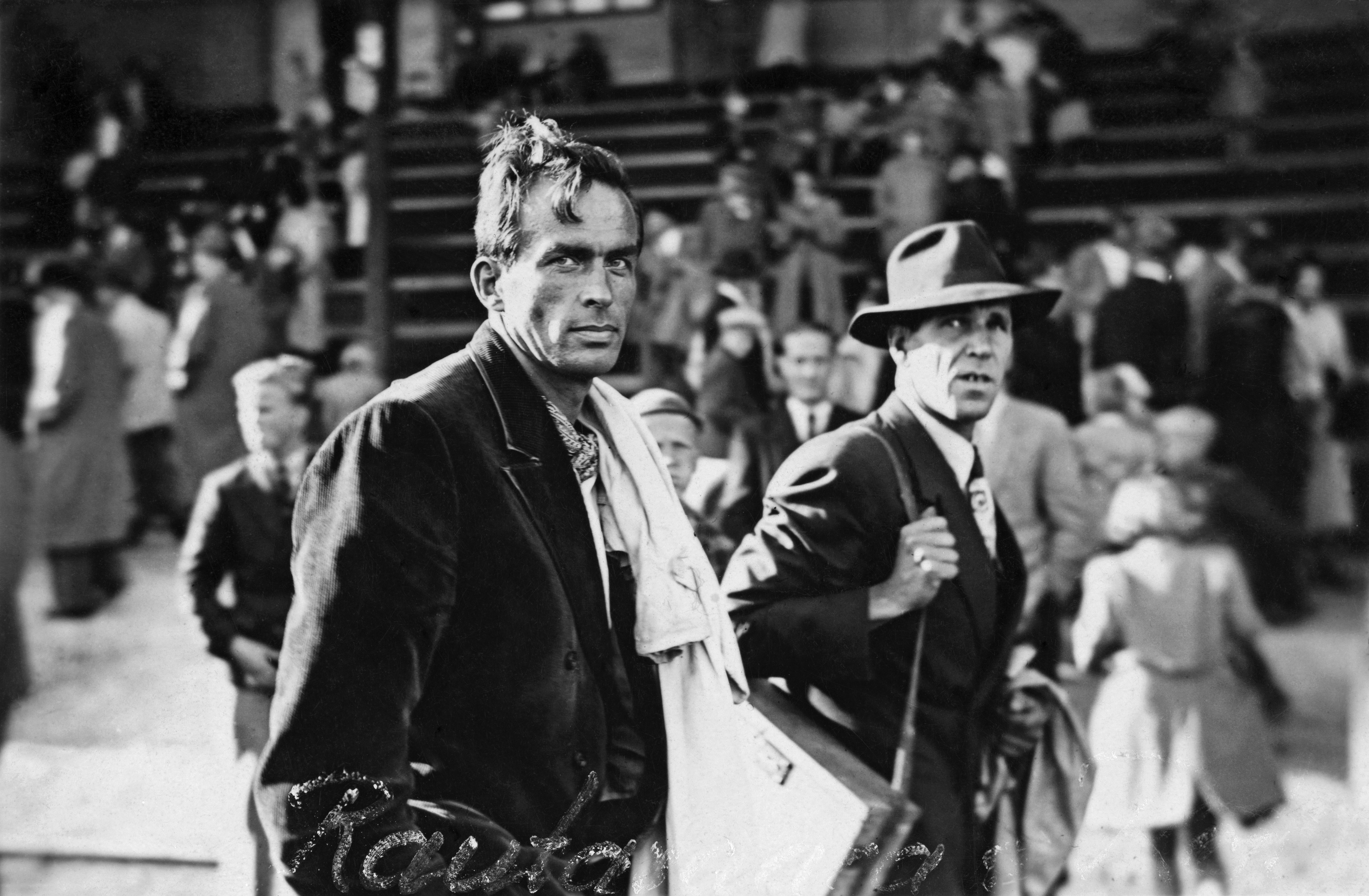 Finnish singer Tapio Rautavaara and songwriter Reino Helismaa in the 1950's.